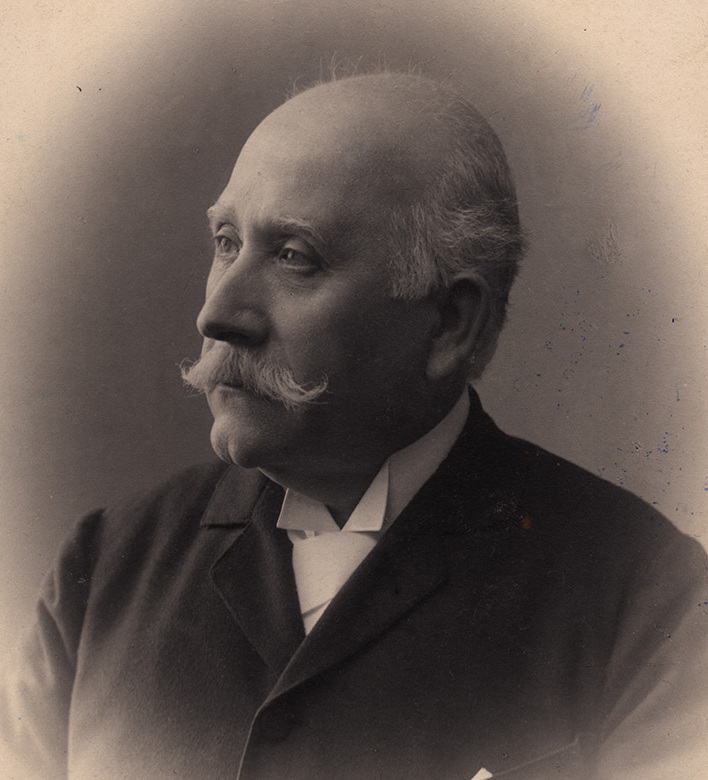 Portrait of Luigi Capuana, journalist (1839-1915). Photo by I. Strizzi, Roma, before 1915.